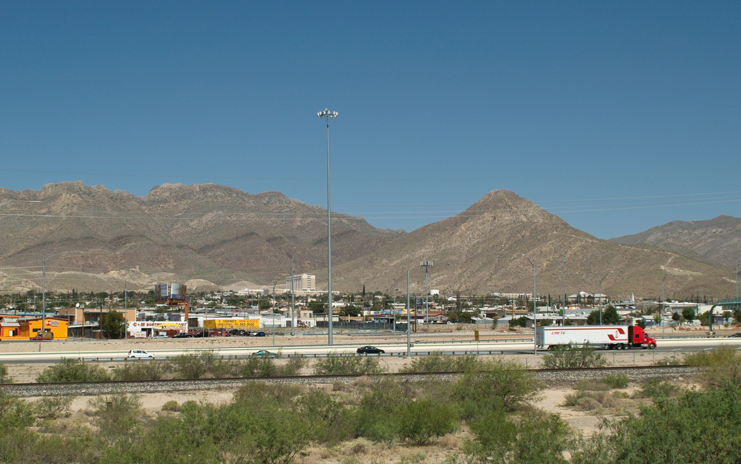 A view of Sugarloaf Mountain, El Paso, Texas, taken to match the view at File:Camping on the Border, near El Paso, Texas.jpg, from near the Cassidy Road entrance to Fort Bliss, July 2012